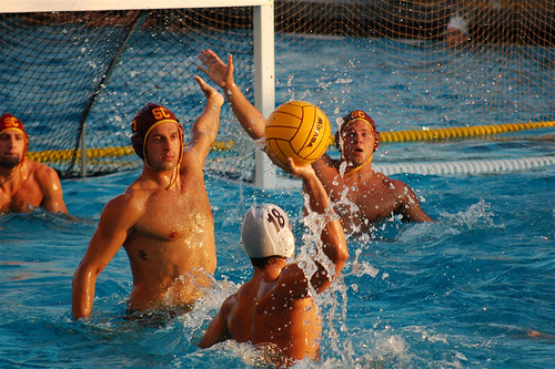 Water polo, USC Trojans, University of Southern California in Los Angeles, California